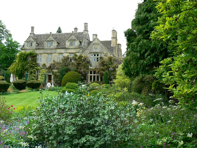 Barnsley House, Barnsley The fine old Cotswold house is now an upmarket hotel complete with helipad. On this day the gardens, laid out by the previous owner, the late Rosemary Verey, were open to the public. Rosemary Verey was well-known for her horticultural skills and was an adviser to HRH Prince Charles.